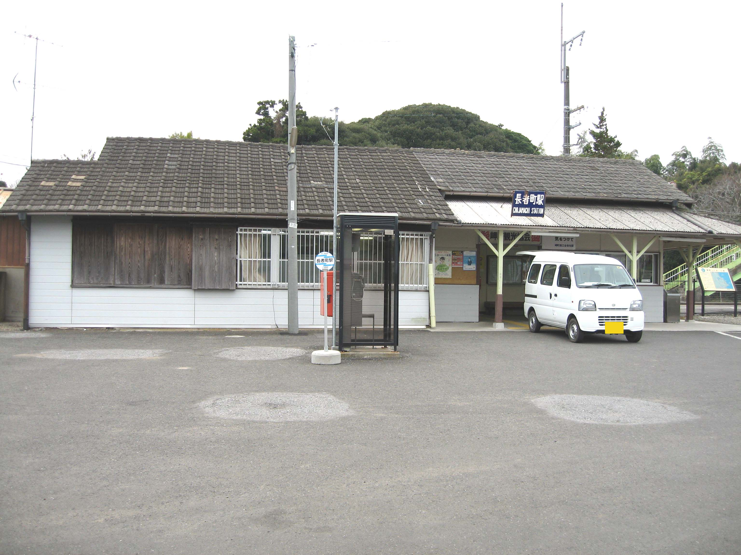 Choujamachi station, Sotobo Line, Chiba, Japan, 長者町駅駅舎